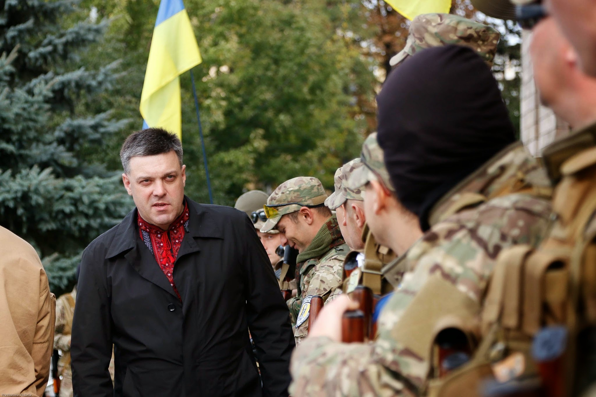 Special patrol police unit «Sich »of the Ministry of Internal Affairs of Ukraine, September 30, 2014.